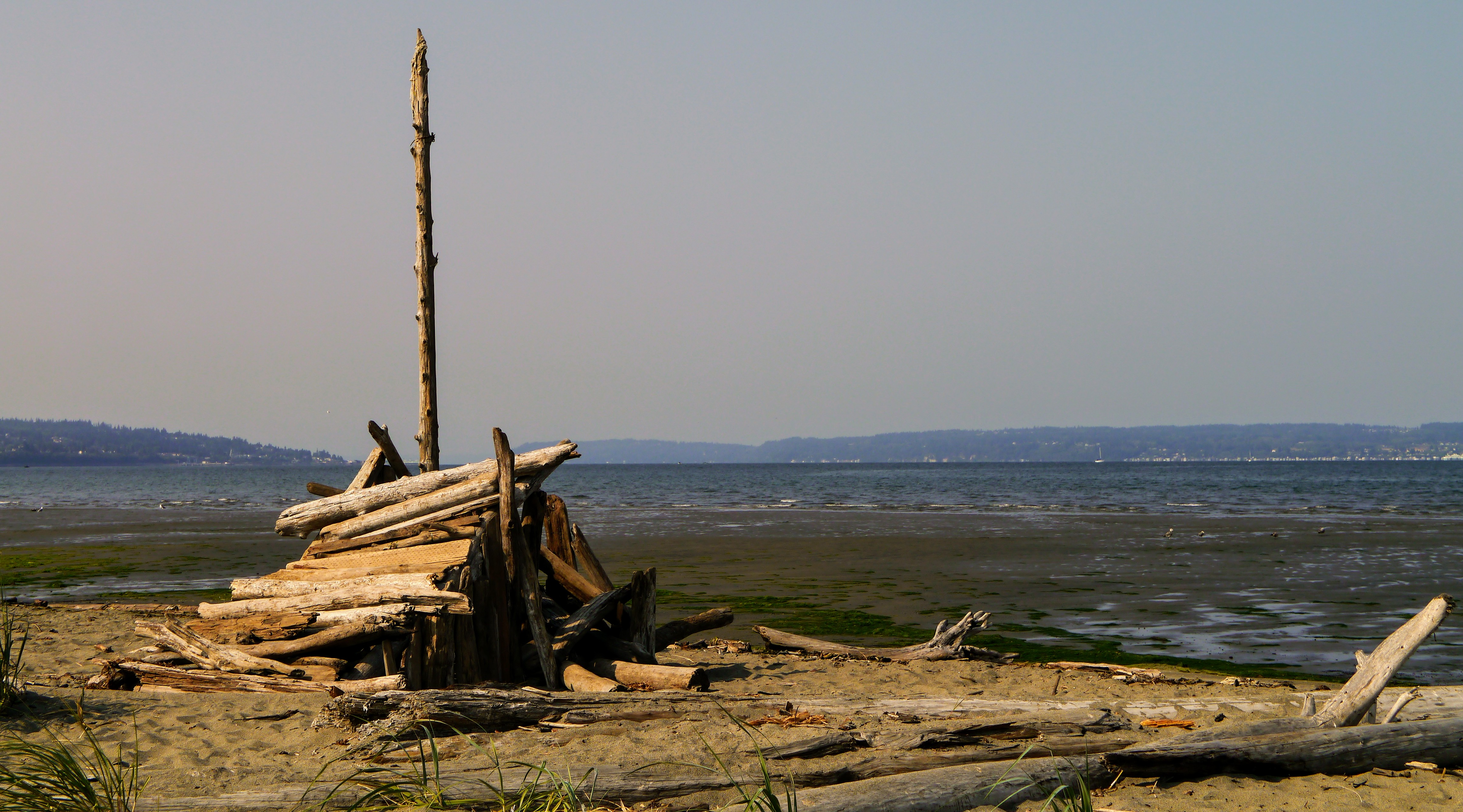 Westward view towards mud flats and Puget Sound with a driftwood structure in the foreground